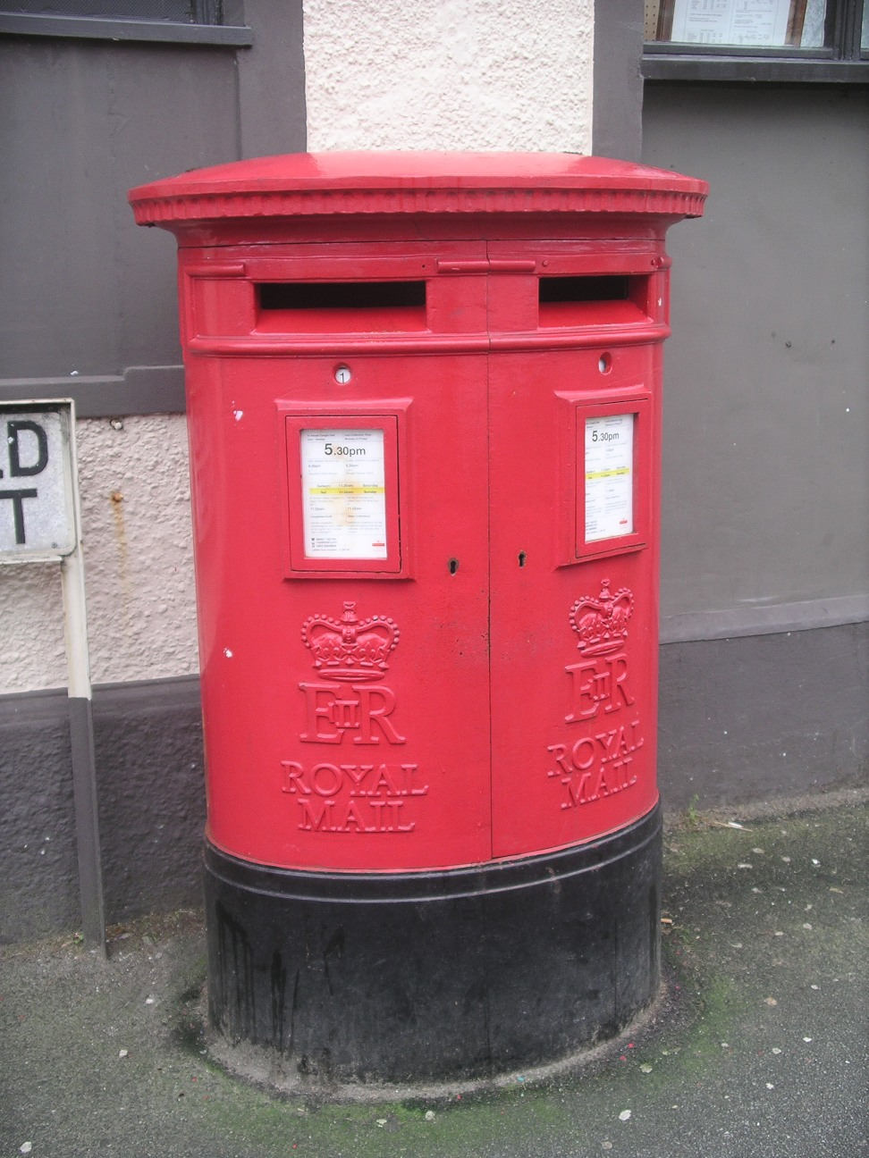 Modern double pillar-box @Menai Bridge, North Wales